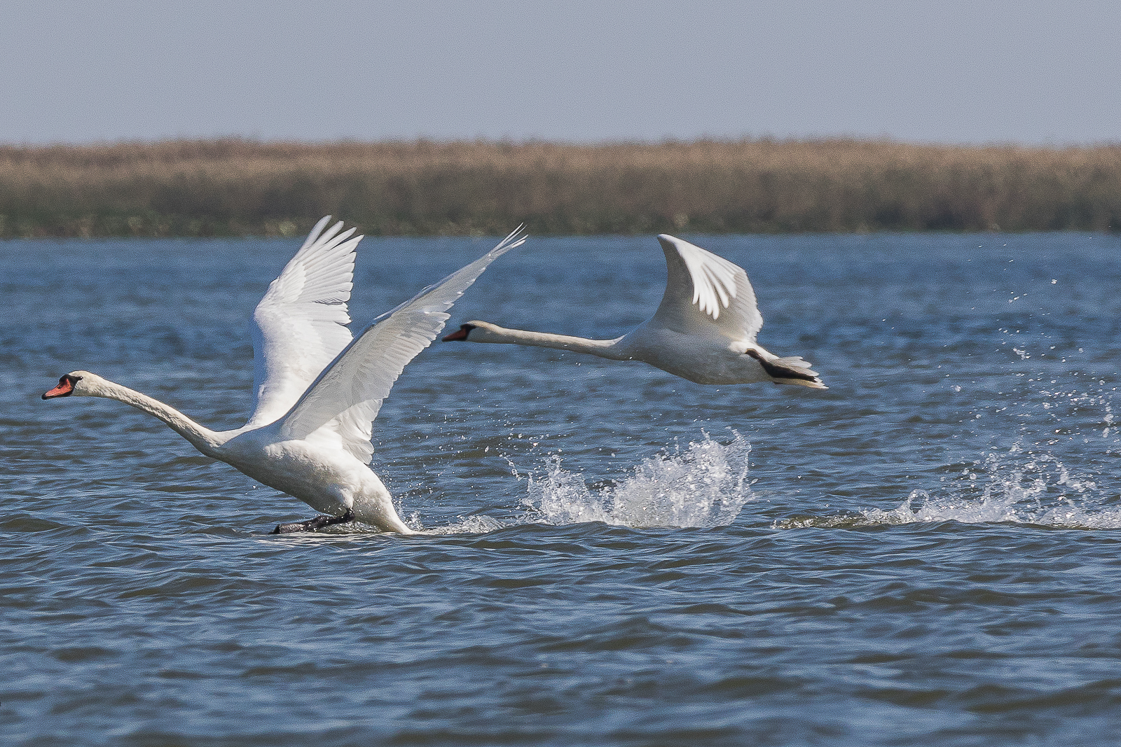 This is an image of the Biosphere Reserve or a Geopark: Astrakhan Nature Reserve